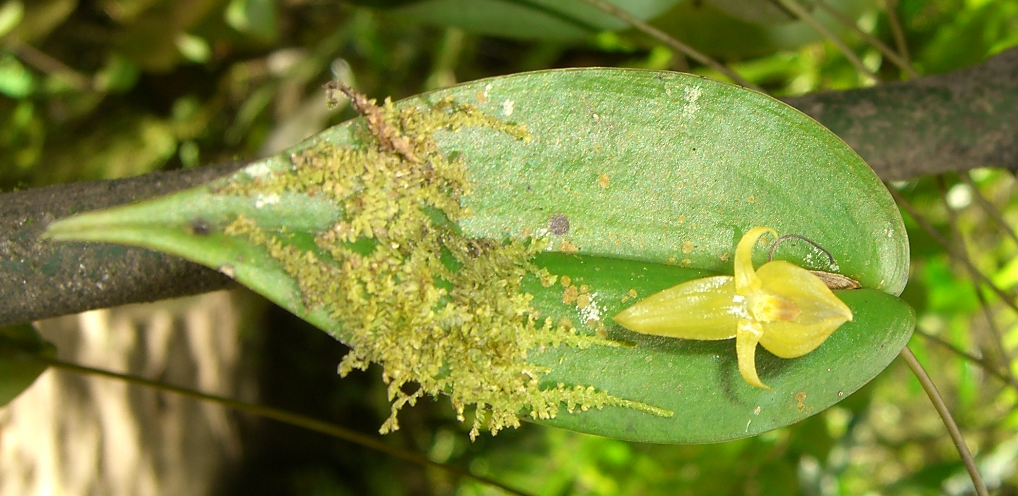 Please report references to .